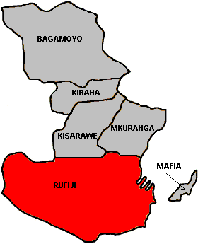 Created by Andrew Coe